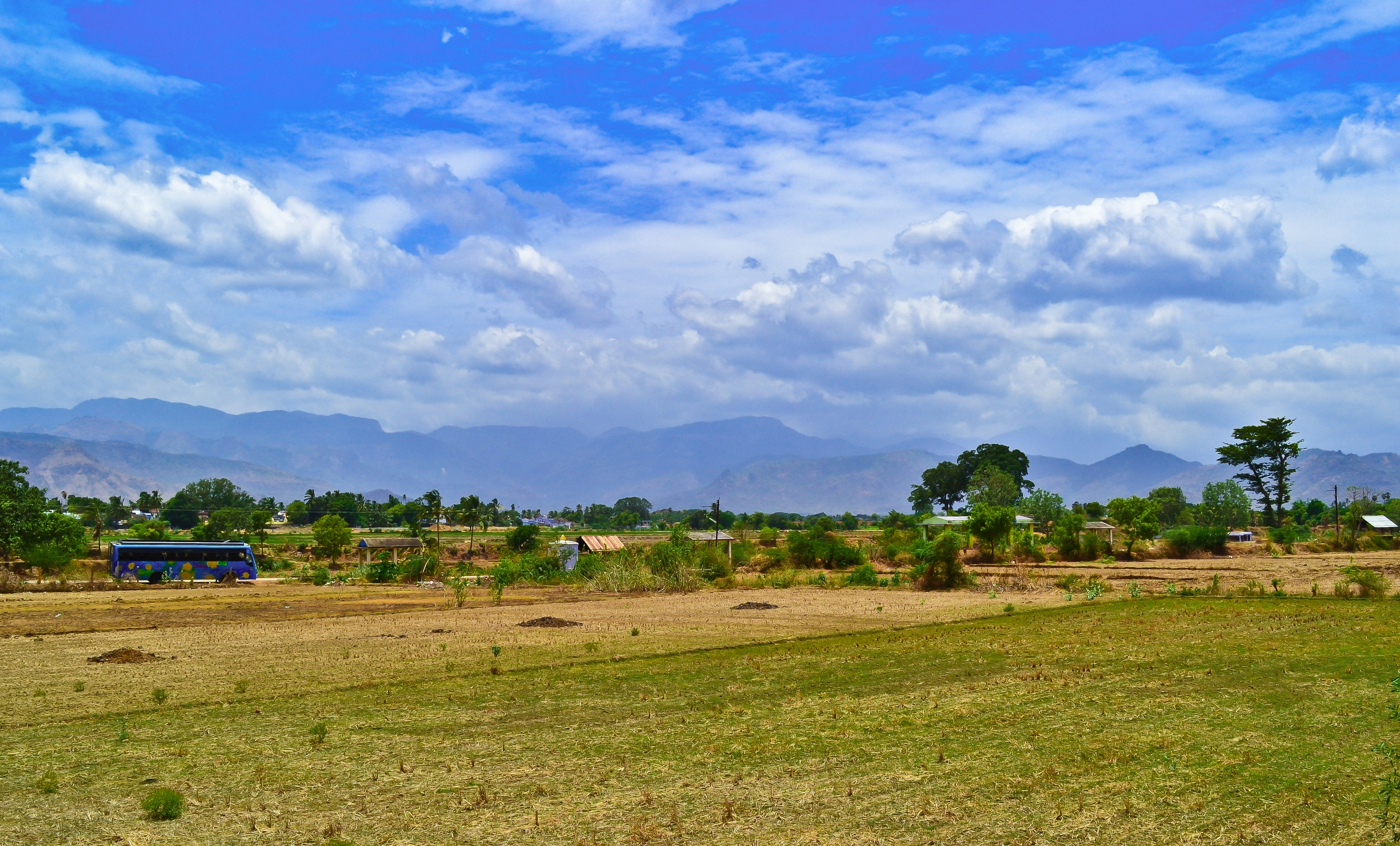 A landscape scenery featuring paddy fields after harvest, in the foreground, with the Podhigai hills as backdrop.